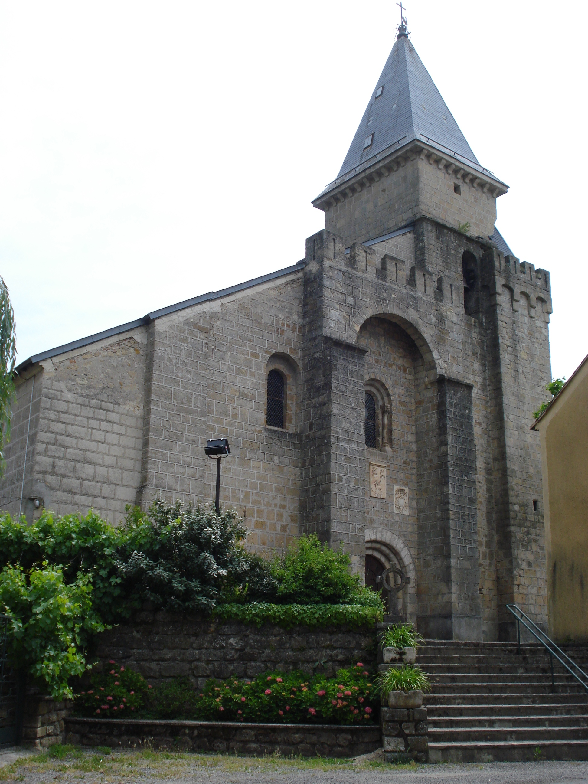 Alzon (Gard, Fr) church.